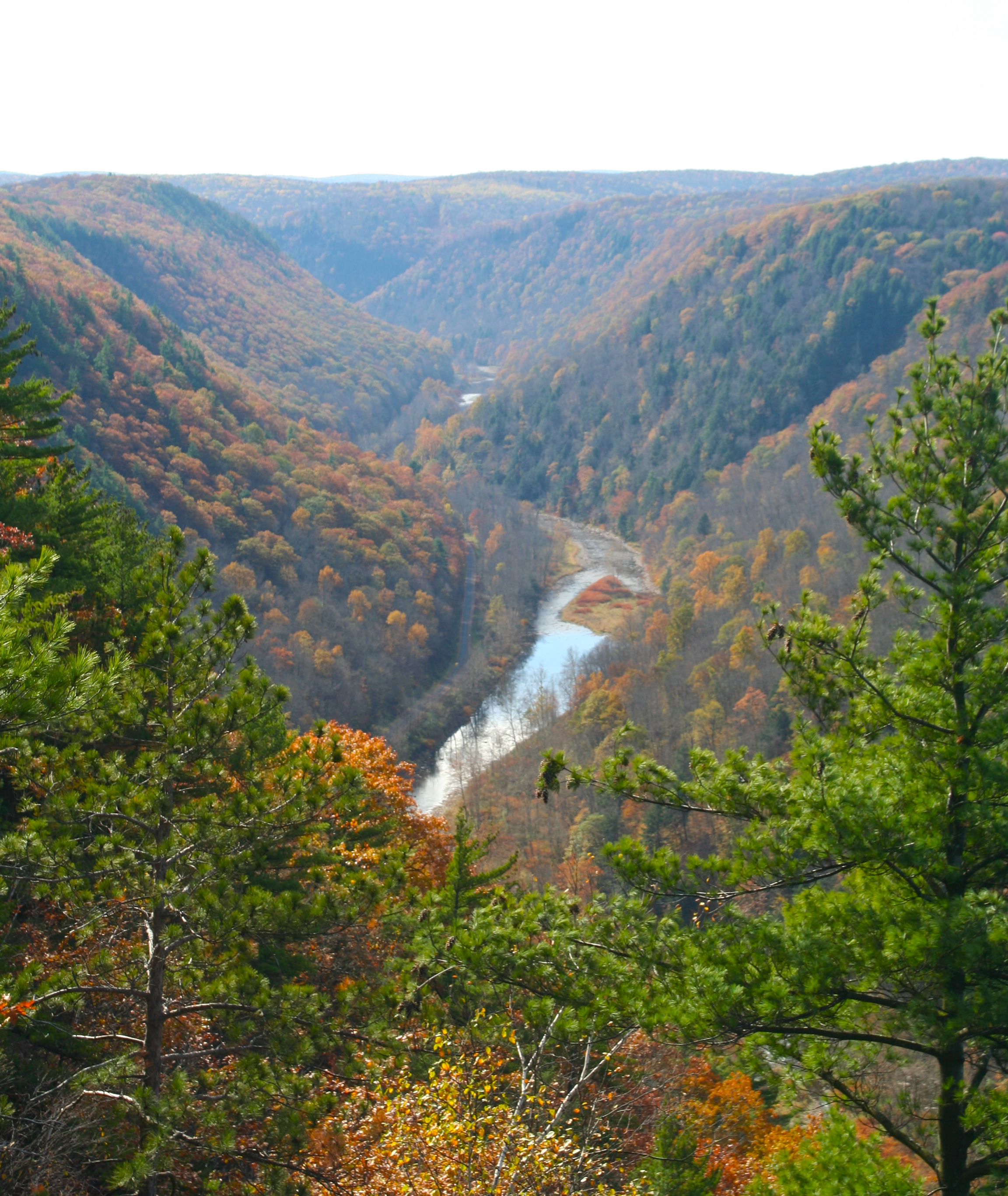 A view of Pine Creek Gorge (a.k.a. Pennsylvania Grand Canyon) in autumn.